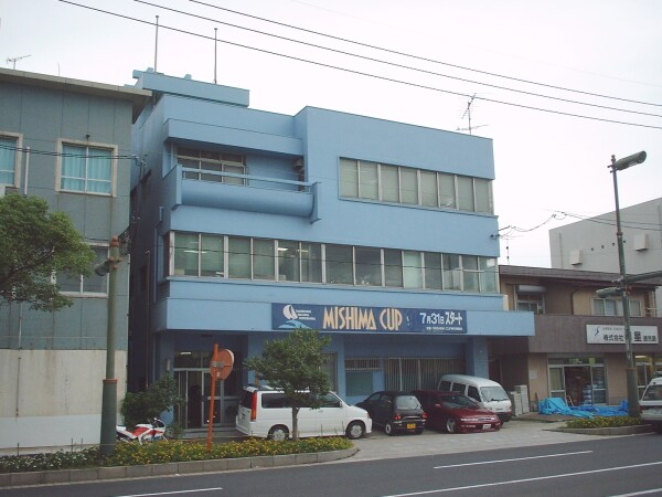 Mishima Village Office in Kagoshima Prefecture, Japan(三島村役場,鹿児島県)